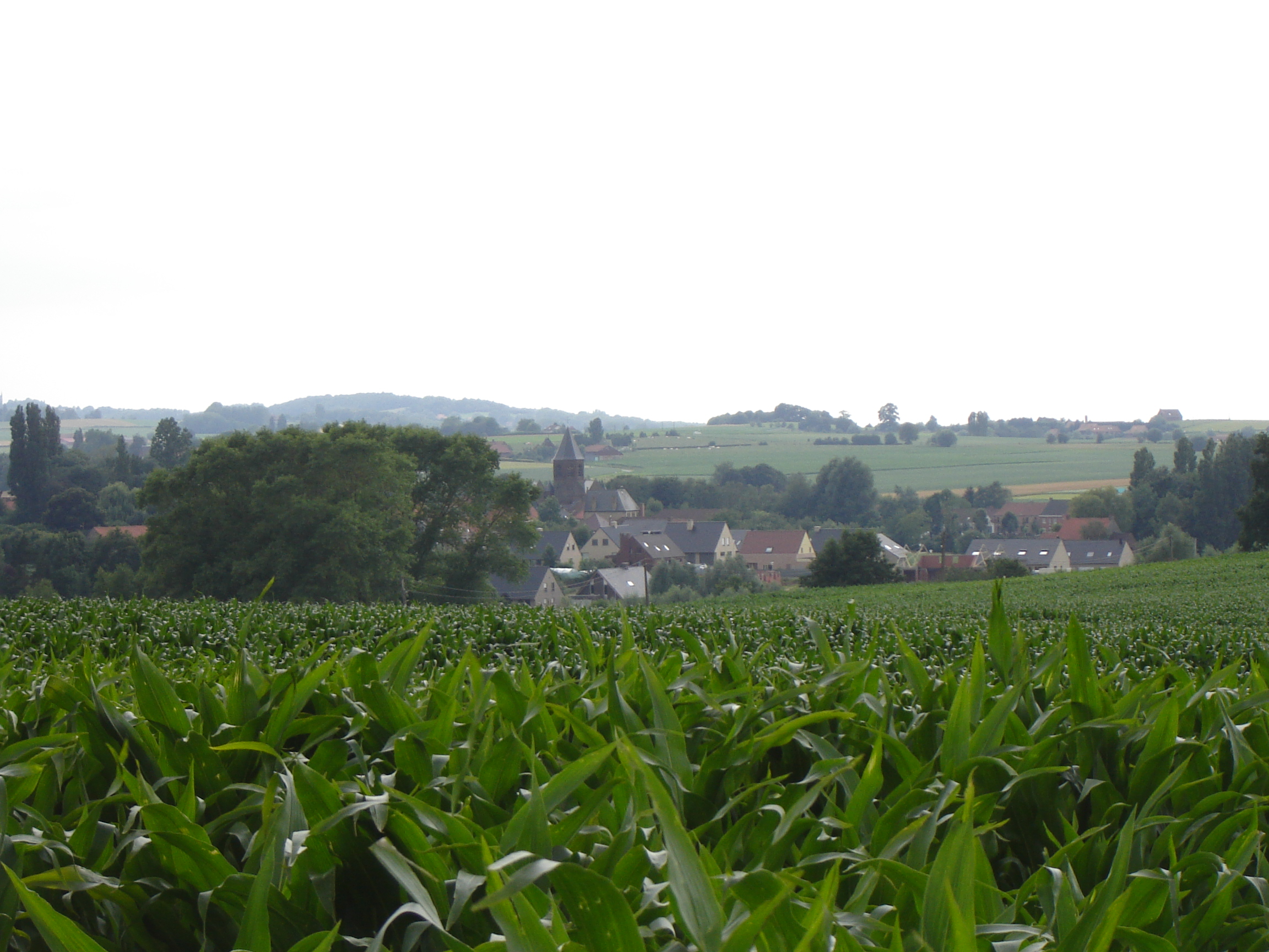 View on the village of Westouter. Westouter, Heuvelland, West Flanders, Belgium.